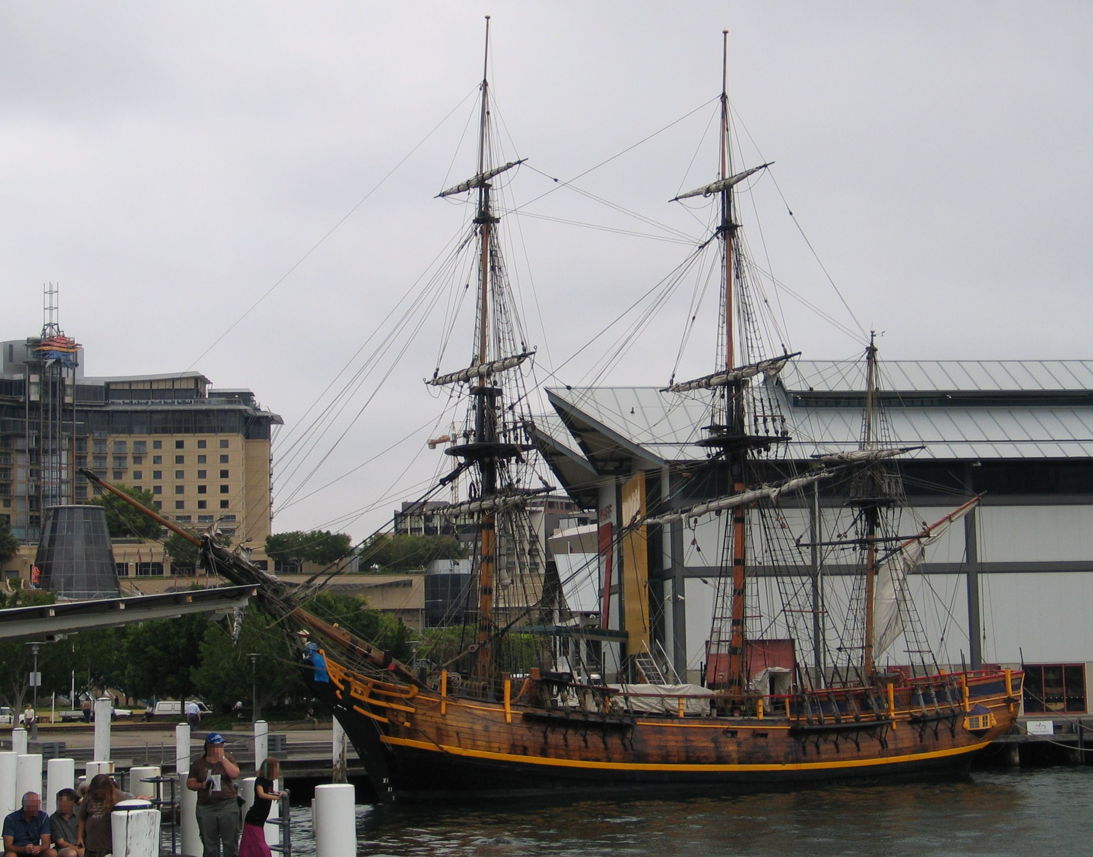 HMAV Bounty replica at the Australian National Mairitme Museum, Sydney, NSW, Australia. (This may be the Bounty III which is now in Hong Kong. Bounty III was launched in 1979)